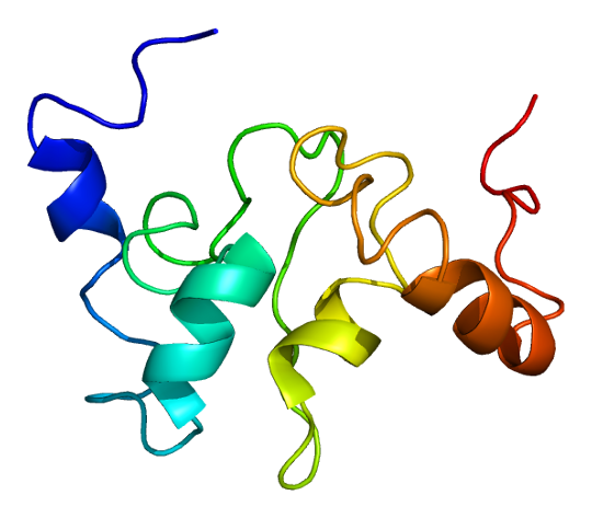 Structure of the BIRC2 protein. Based on PyMOL rendering of PDB 1qbh.